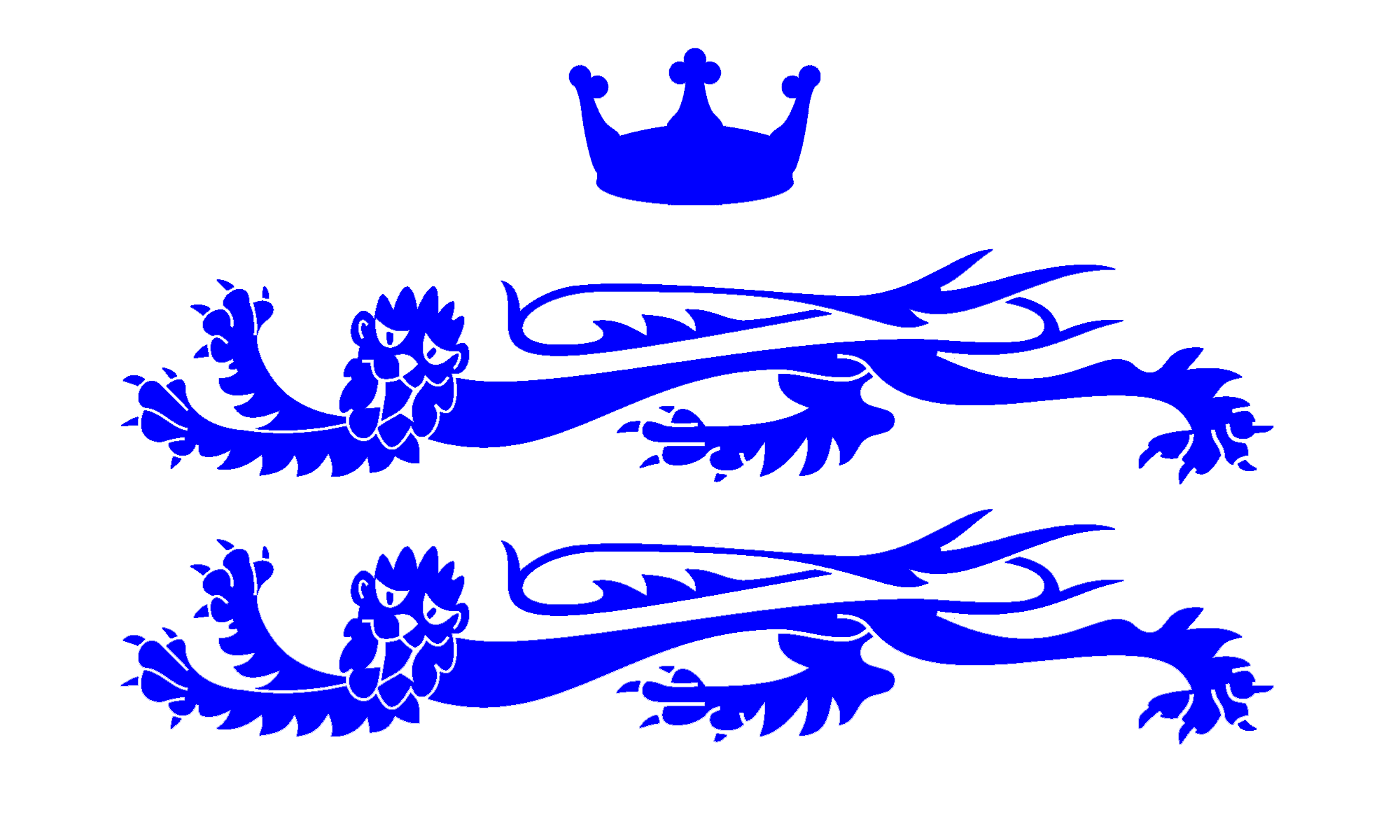 A version of the County Flag of Berkshire, as it commonly appears at county faires and various flag stores([1], [2]). Other flags for Berkshire exist, such as the version flown outside the Department for Communities and Local Government and a privately proposed version. This version is simillar to the former Berkshire County Council's coat of arms, and is composed of two blue lions passant (referencing Berkshire's Royal and Norman connections) and a Saxon Crown (referencing Berkshire's formative Saxon history).